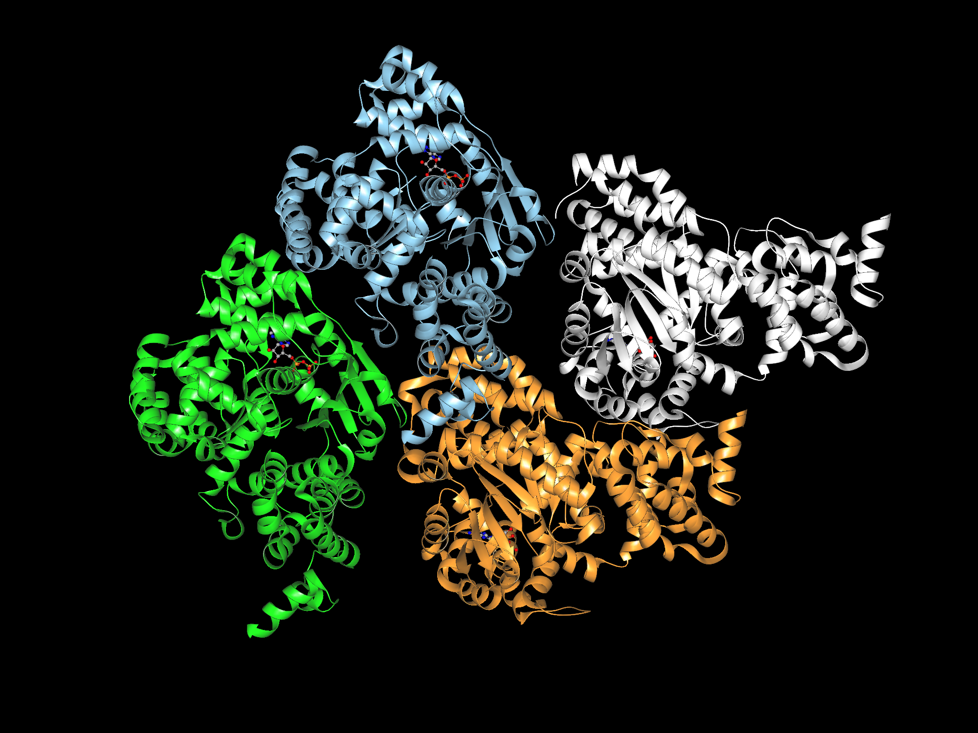 Strukture of APAF1